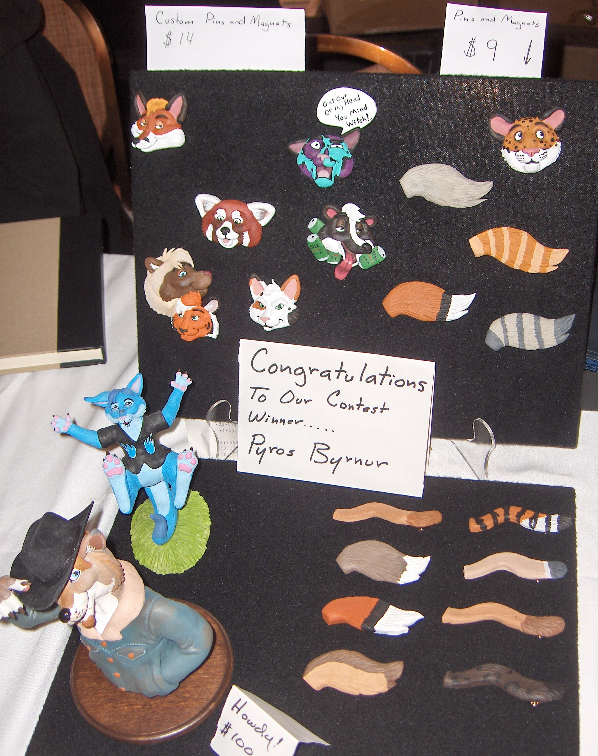 Anthropomorphic (furry) sculptures on the Wicked Creatures dealers table at Further Confusion 2007.